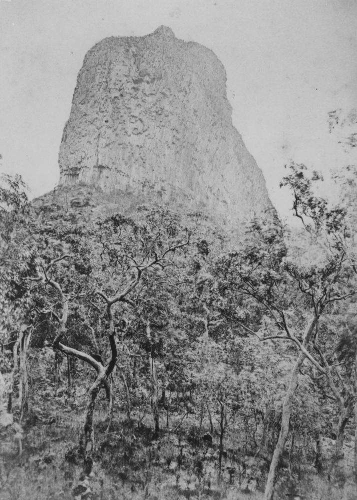 Feature of Mt. Zamia called The Knob, Springsure district, ca. 1877 Possibly a photograph taken by Reckitt and Mills, travelling photographers at this time.